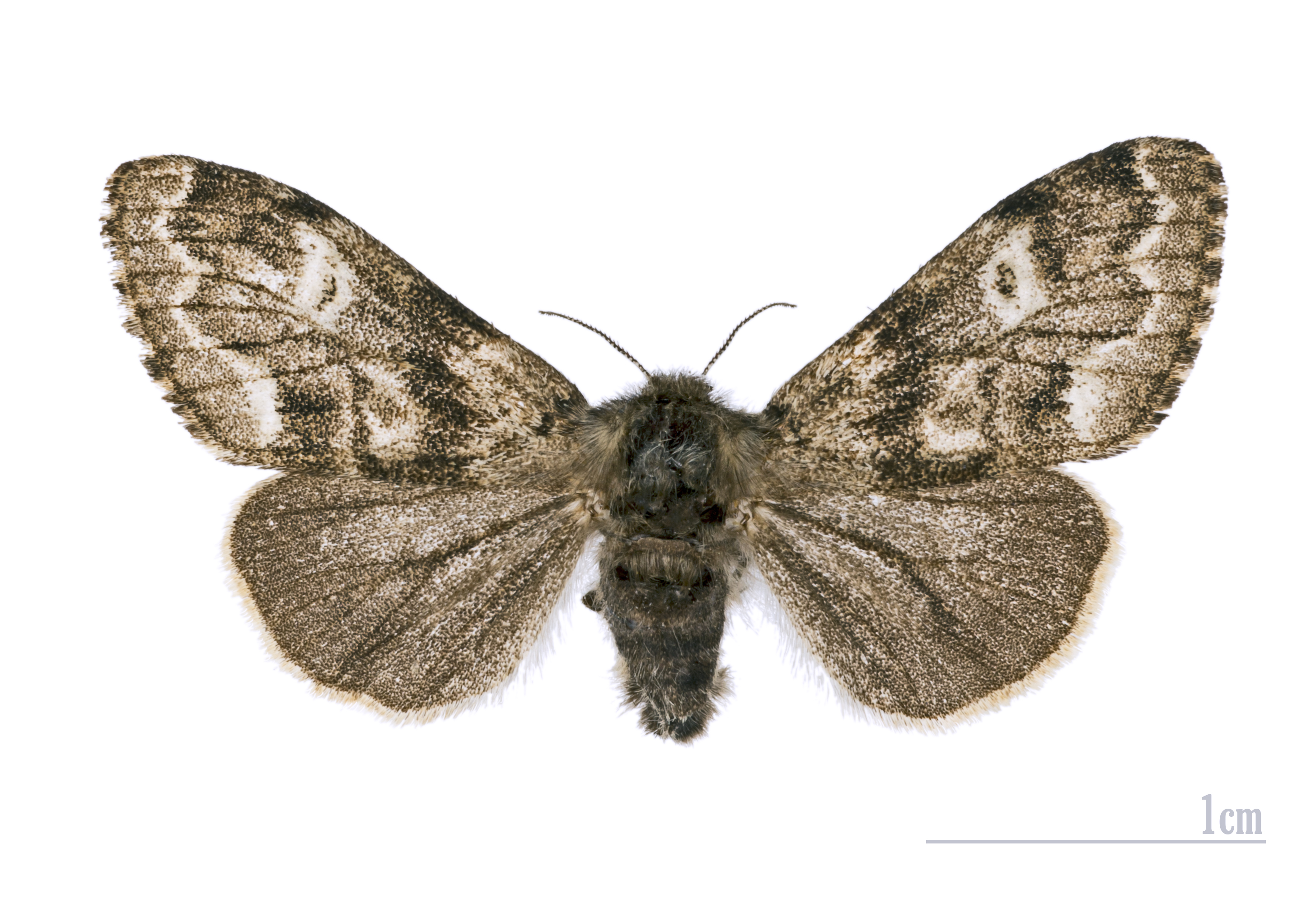 Gynaephora selenitica - Dorsal side